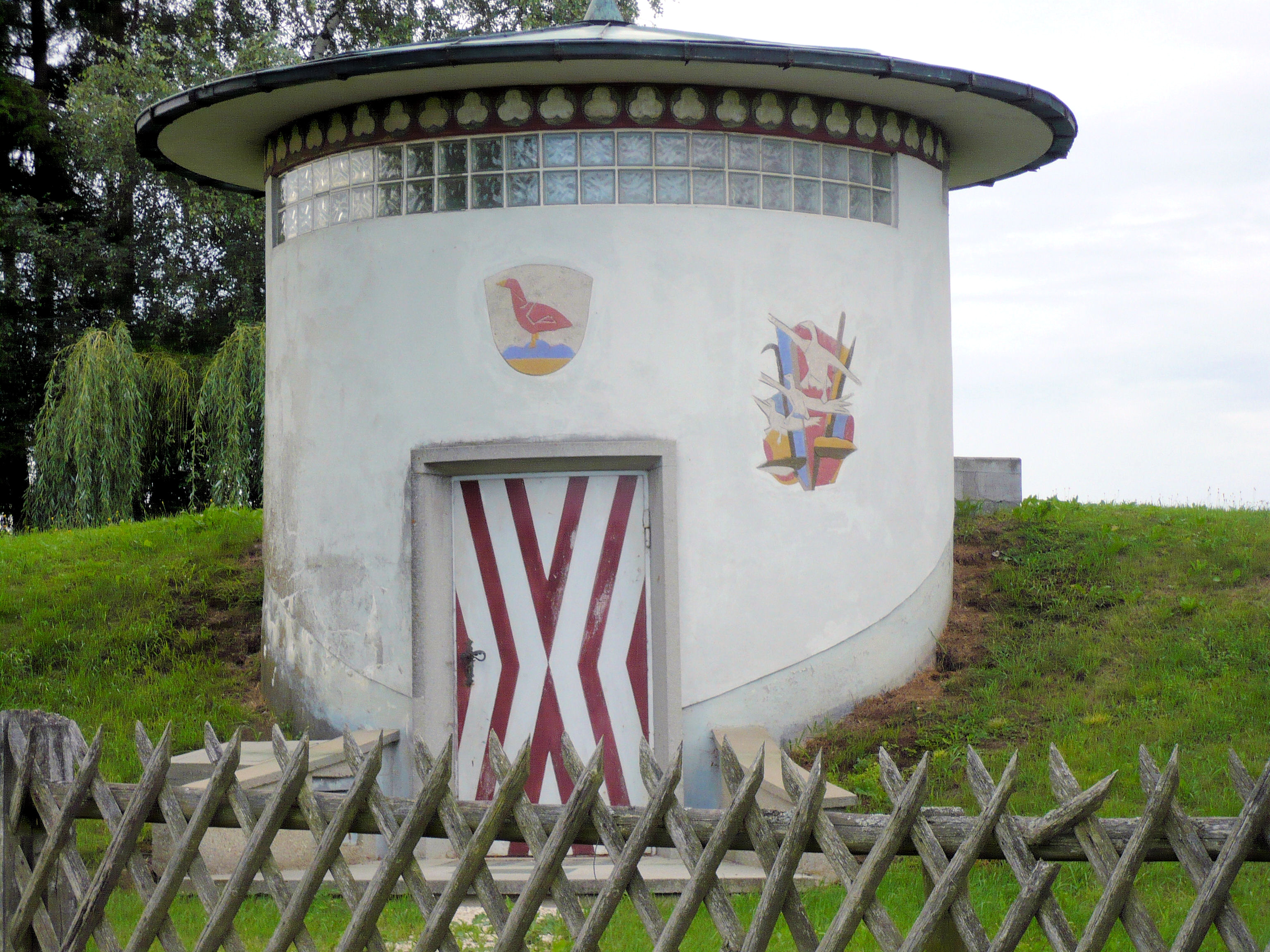 Elevated tank in Gansheim.